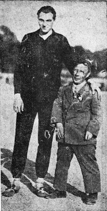 The Finnish singer Lauri Sirelius ("Pikku-Lasse") and the Danish wrestler Aage Meyer